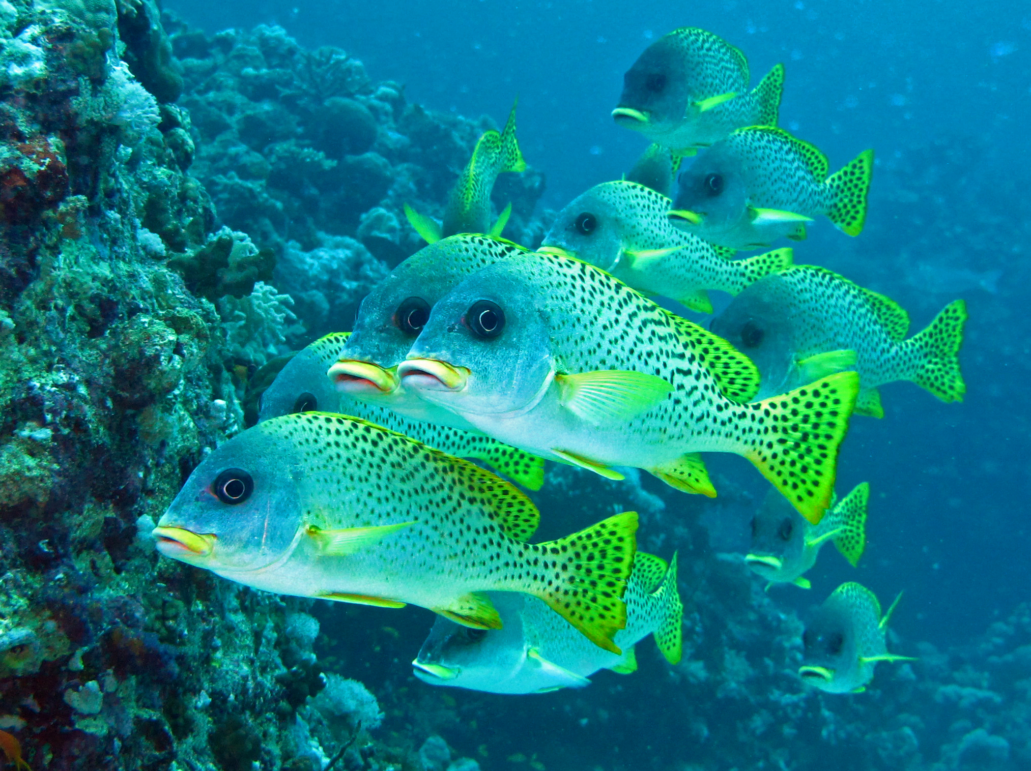 Plectorhinchus gaterinus. A small group from Sudan coast, Red Sea